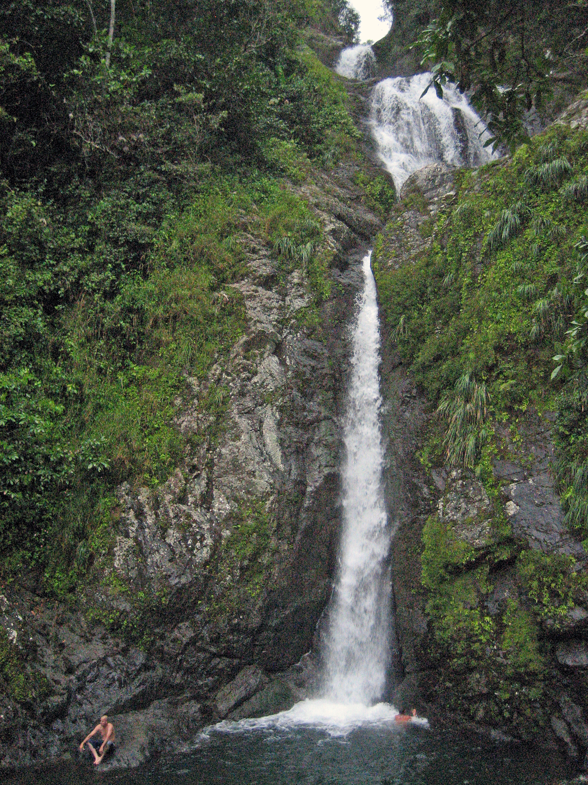 Salto Doña Juana, Orocovis, Puerto Rico / Waterfall and swimming hole